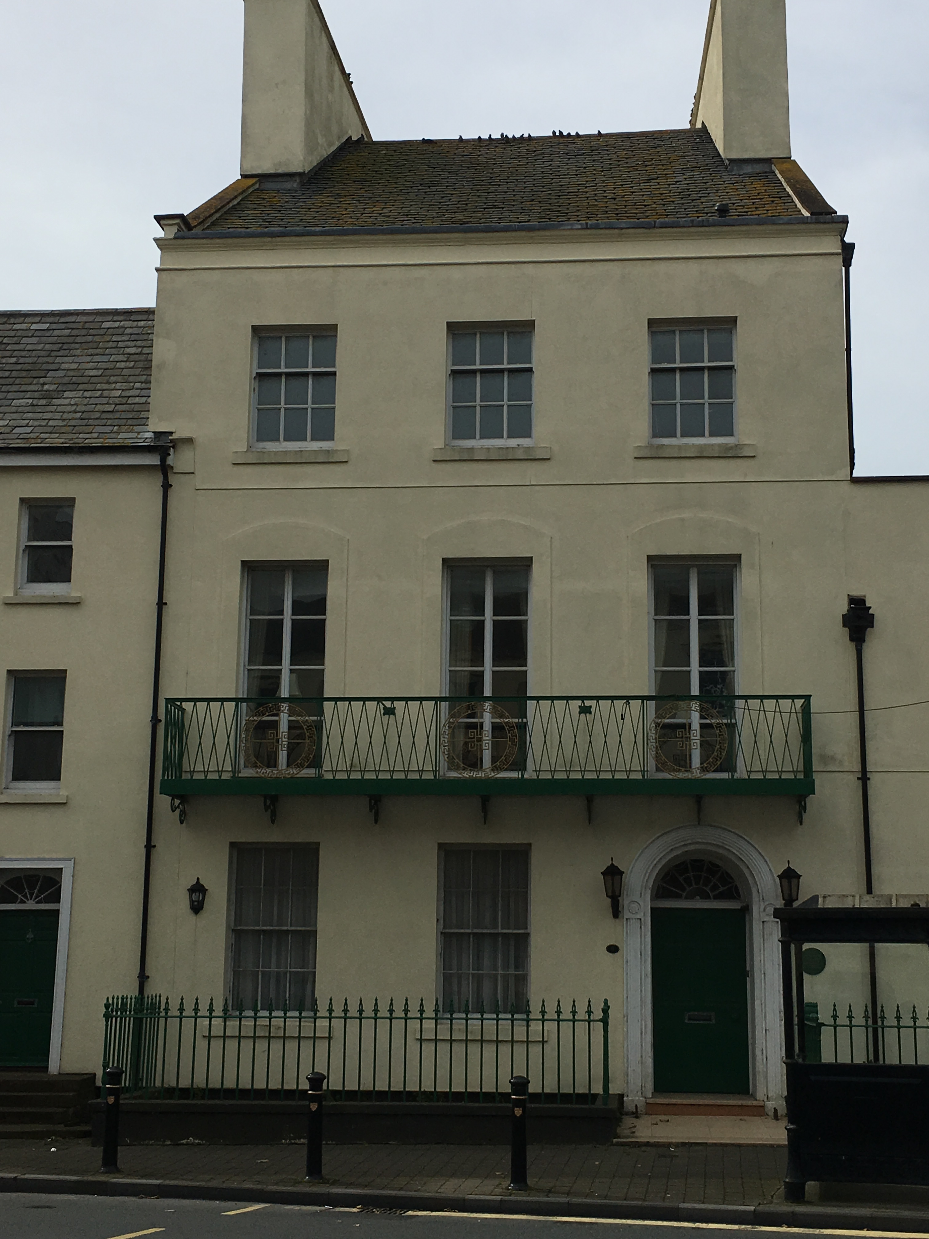 Balcony House, the home of Captain John Quilliam